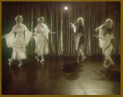 Yuri Khanon “L’Os de chagrin” (oc.38, 1990, “The Shagreen Bone” opera-interlude from the ballet “L’Os de chagrin”) - Menuetto (danse)